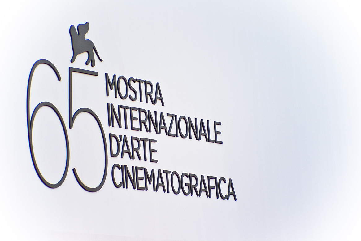 Logo and writing of the 65st Venice Film Festival (2008).